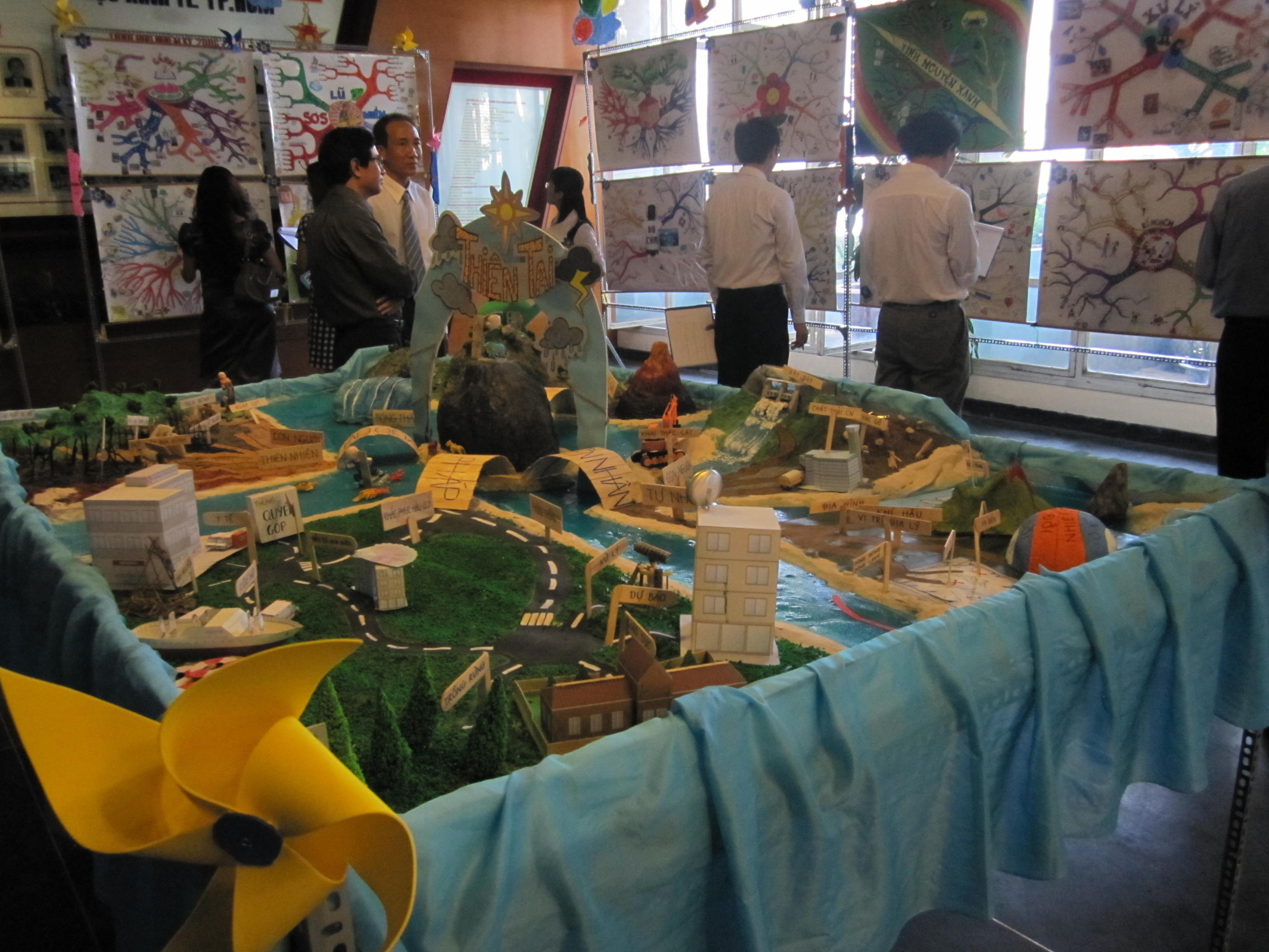 Festival Mindmap 2010 (CYM Group). University of Economics Ho Chi Minh City, Vietnam